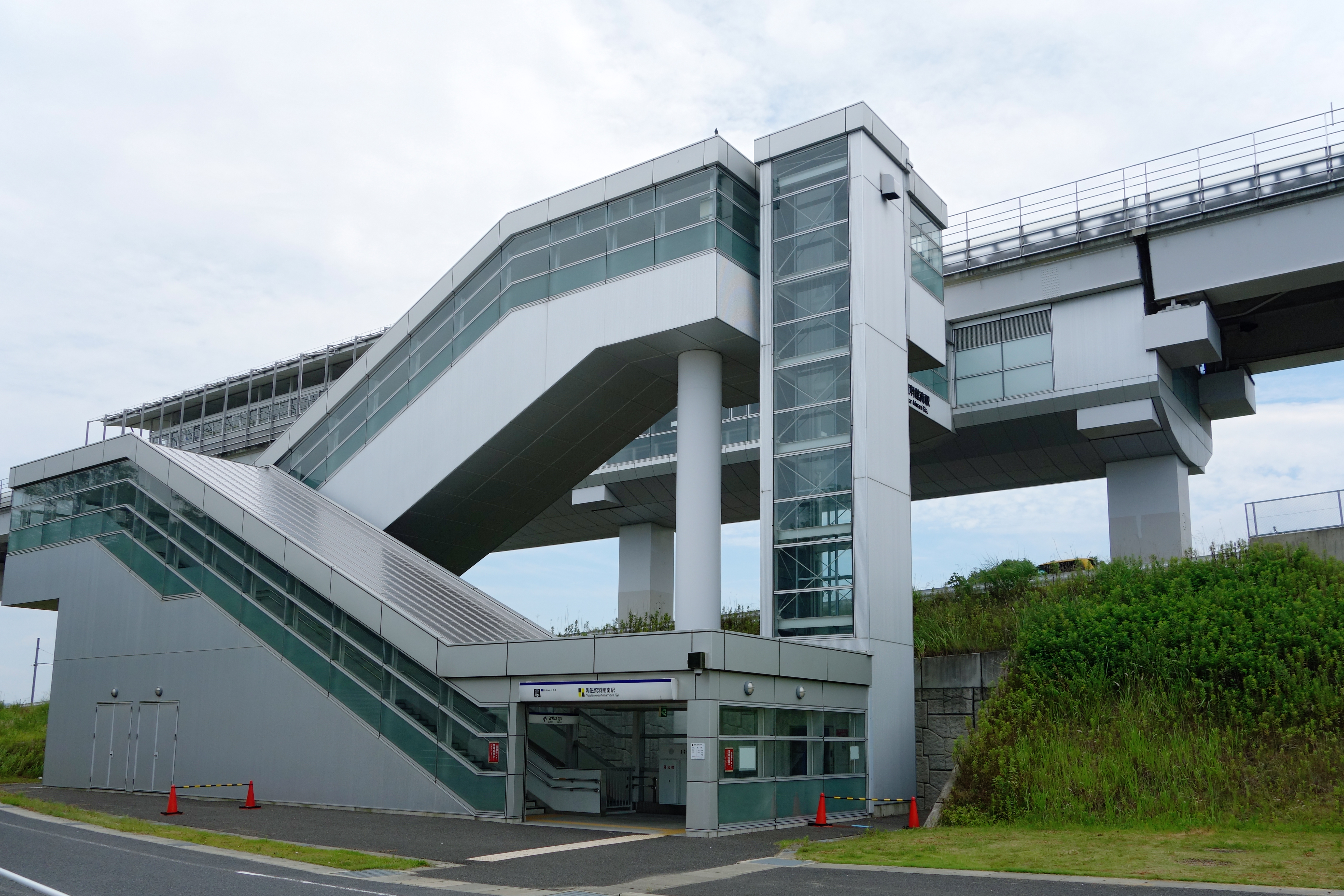 Tōji-shiryōkan-minami Station (陶磁資料館南駅), Toyota, Aichi prefecture, Japan